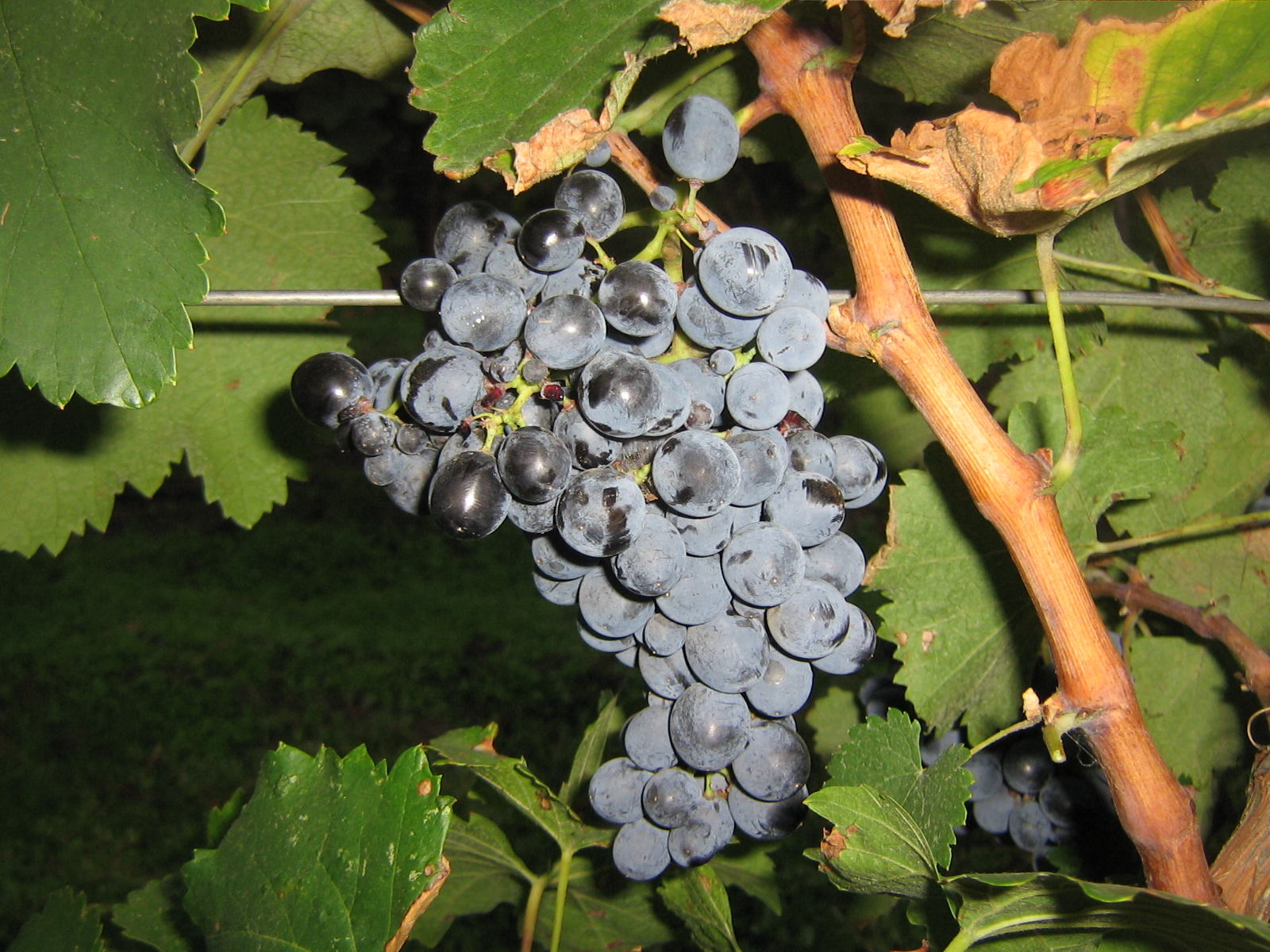 Saperavi bunch in Purcari vineyard, Moldova